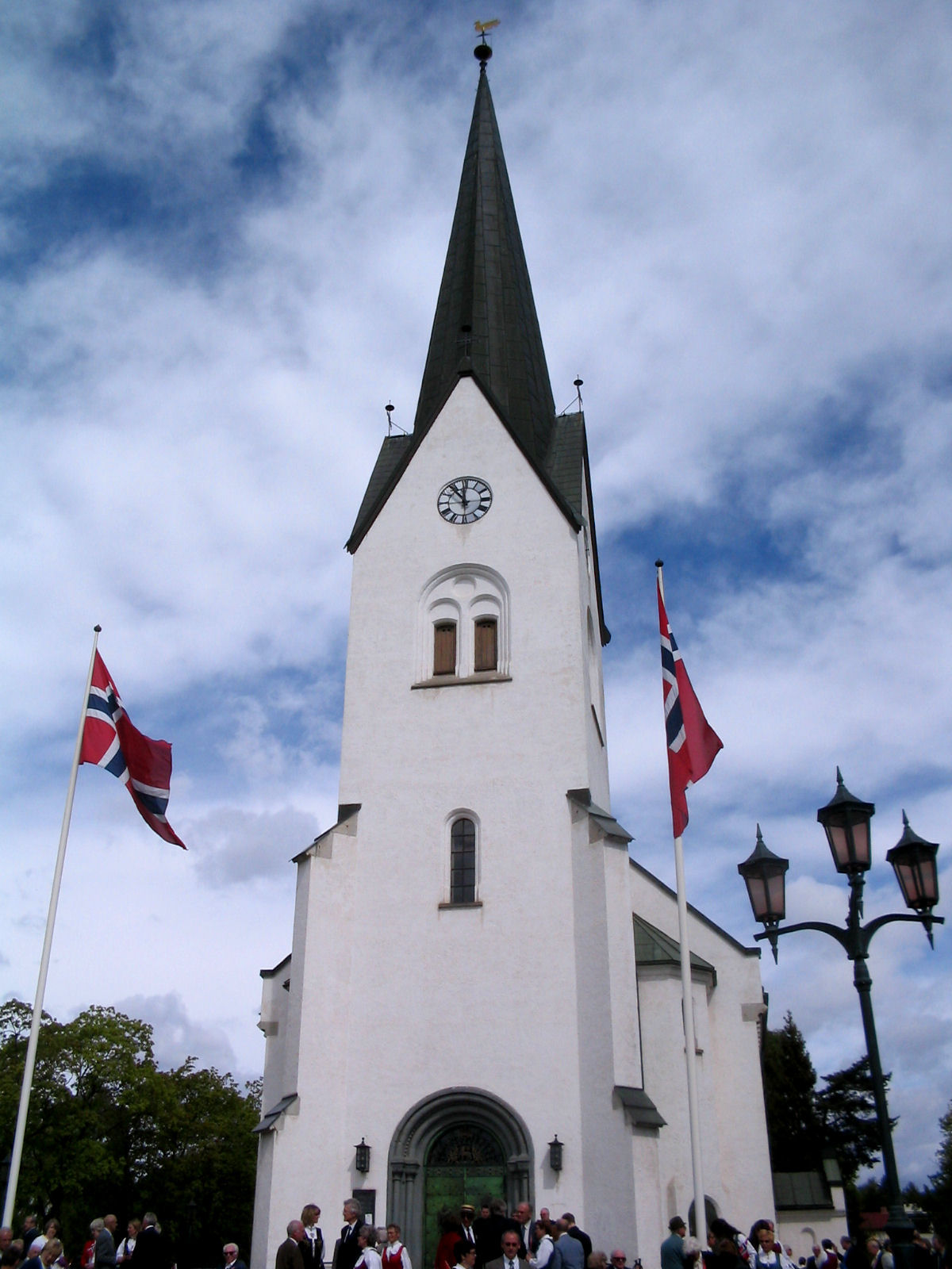 Current cathedral in Hamar